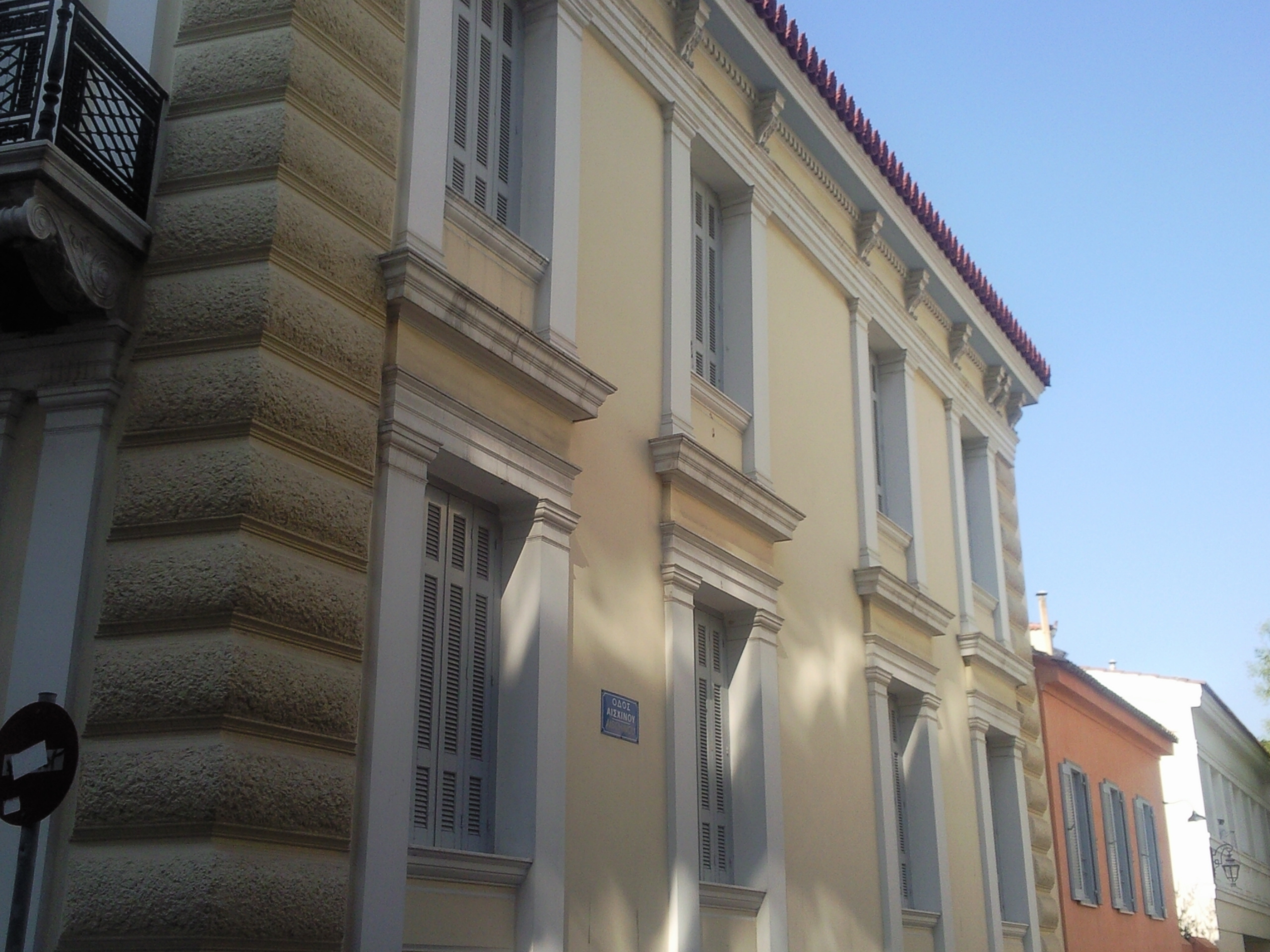 Typical houses in Plaka